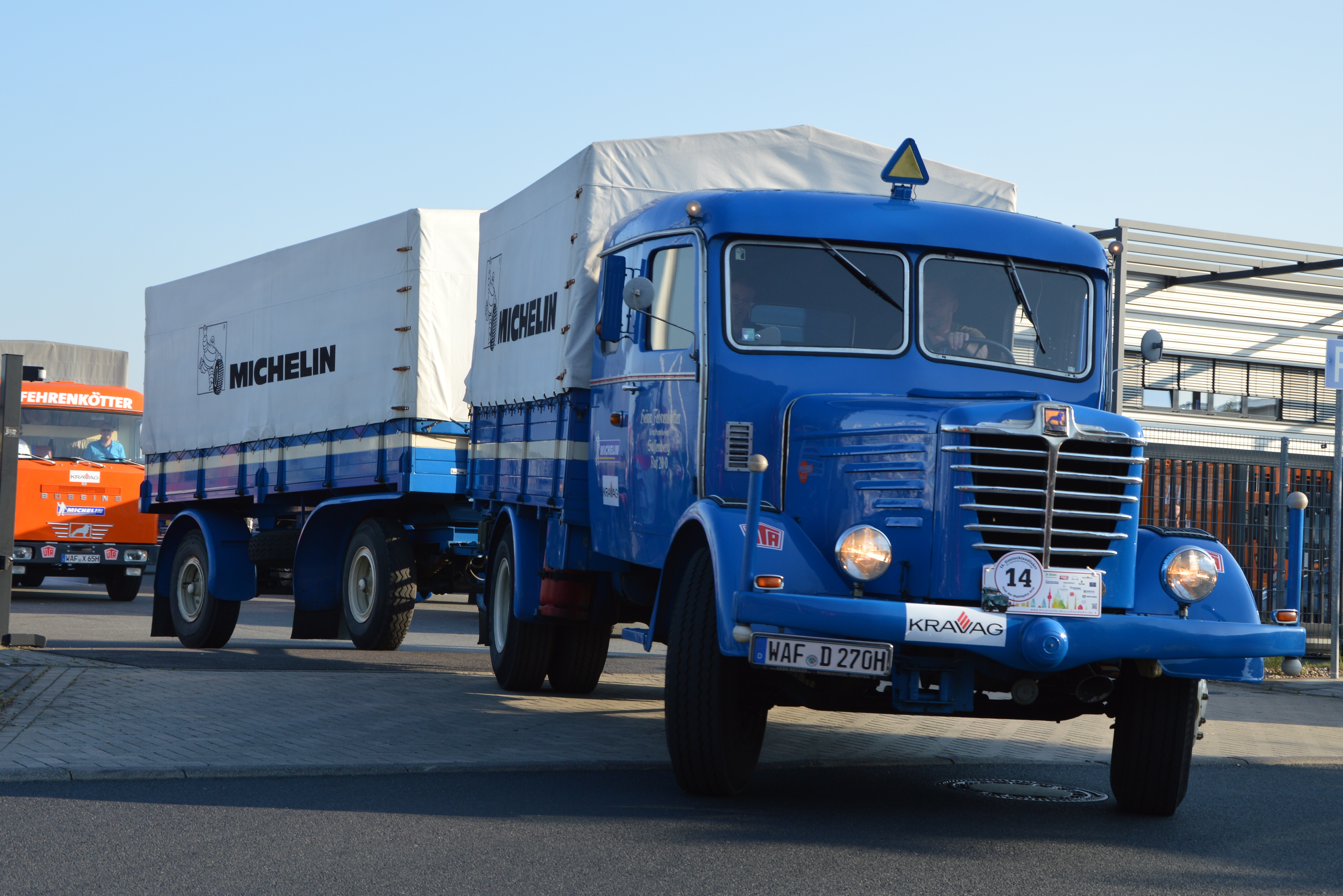 Truck Büssing 6000. Year of construction: 1955.